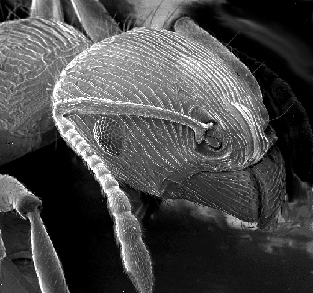 Scanning Electron Microscope image of an ant.